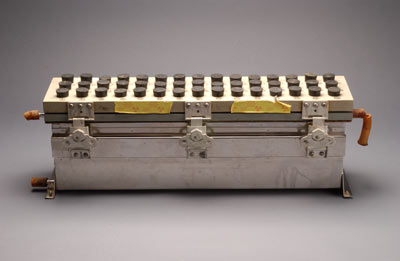 Genetic multiplater